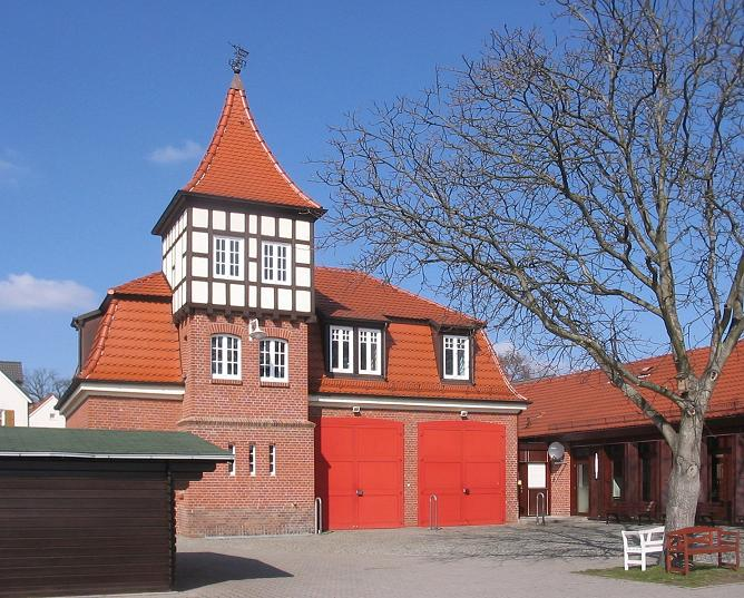 Station of the volunteer fire department and community hall in Ahrensdorf. The building was erected in 1912 and restored in 1995/97. The village Ahrensdorf is a part of Ludwigsfelde, town in the district Teltow-Fläming, state Brandenburg, Germany.